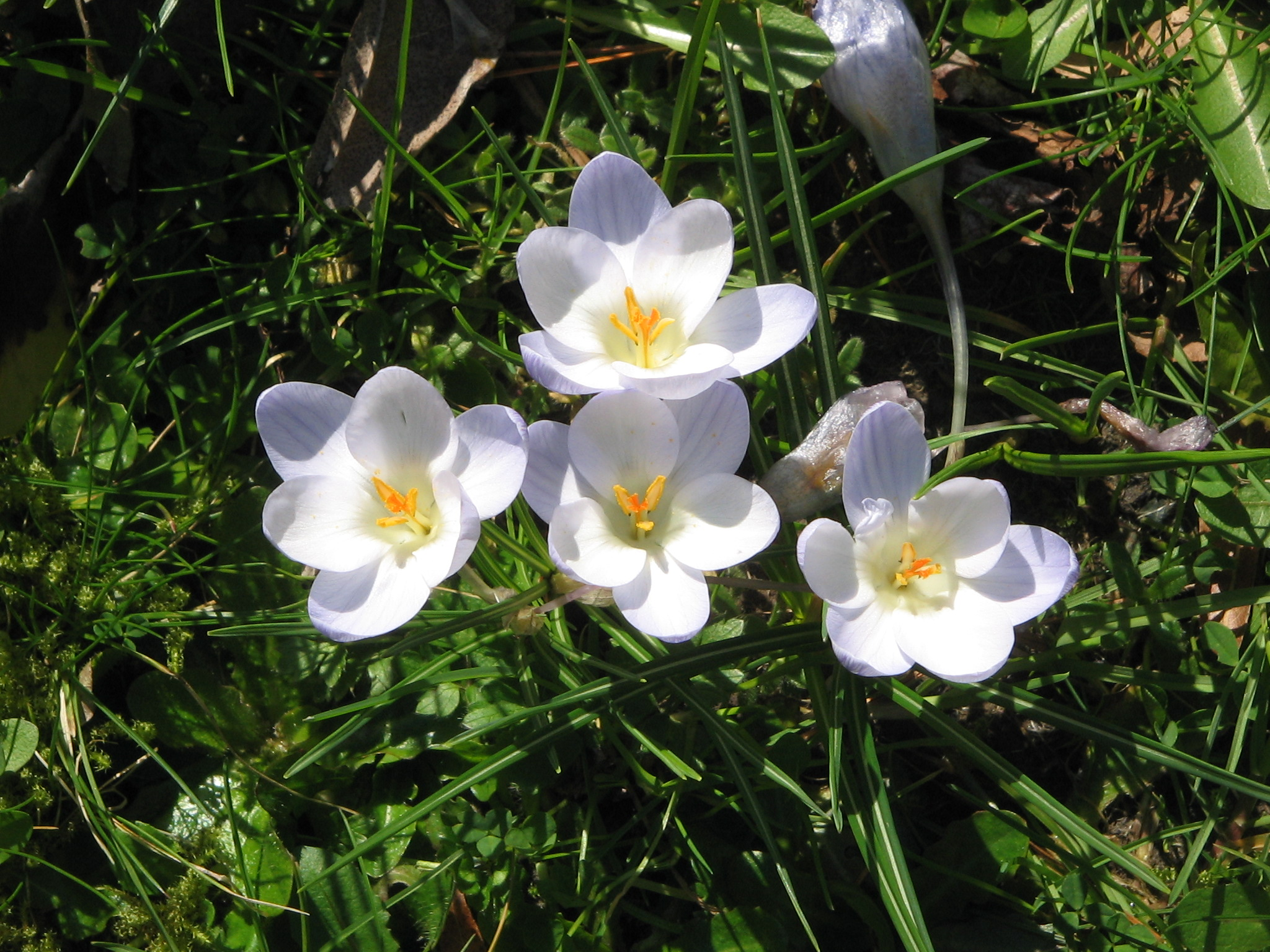 Crocus chrysanthus 'Skyline'